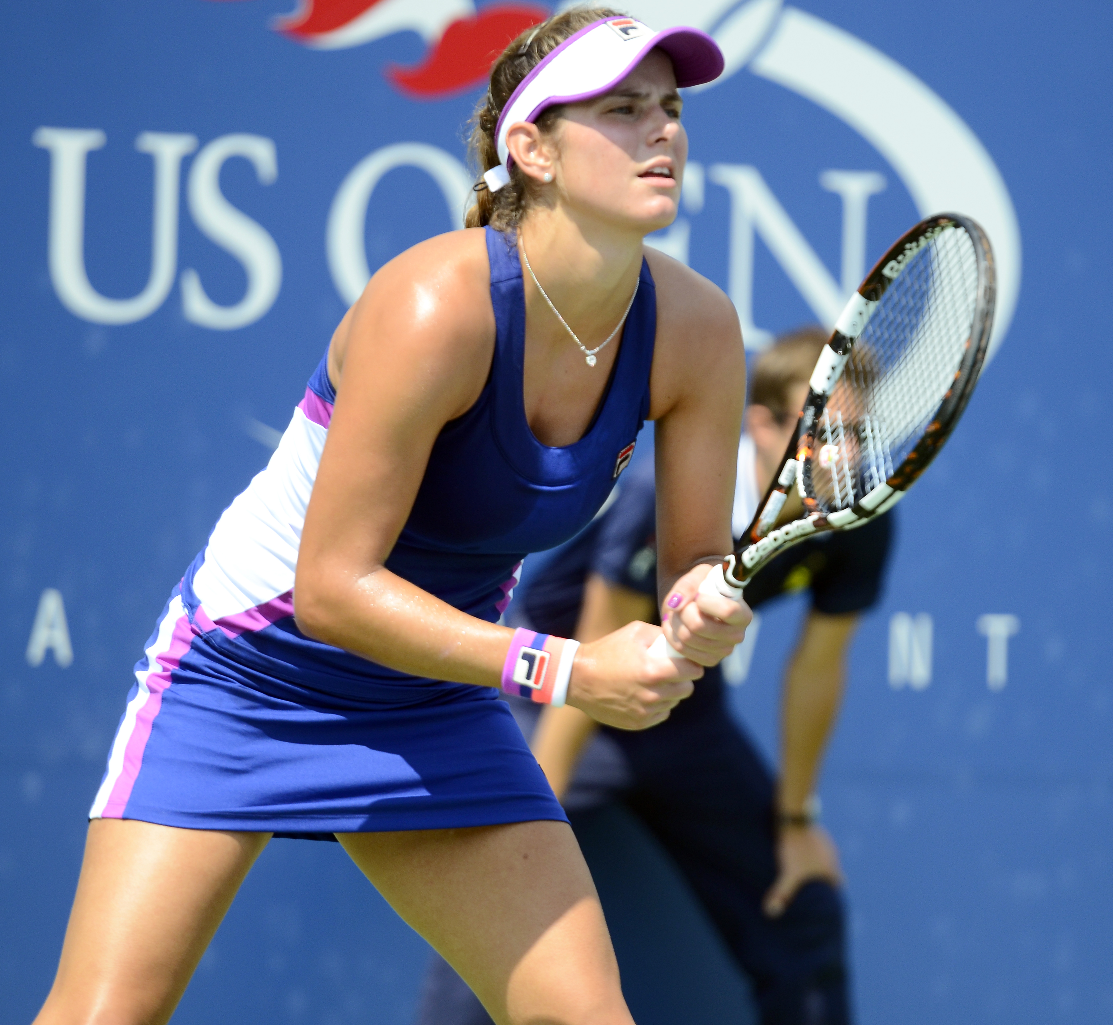 August 26, 2014 Queens, NY Flavia Pennetta (ITA) def Julia Goerges (GER)